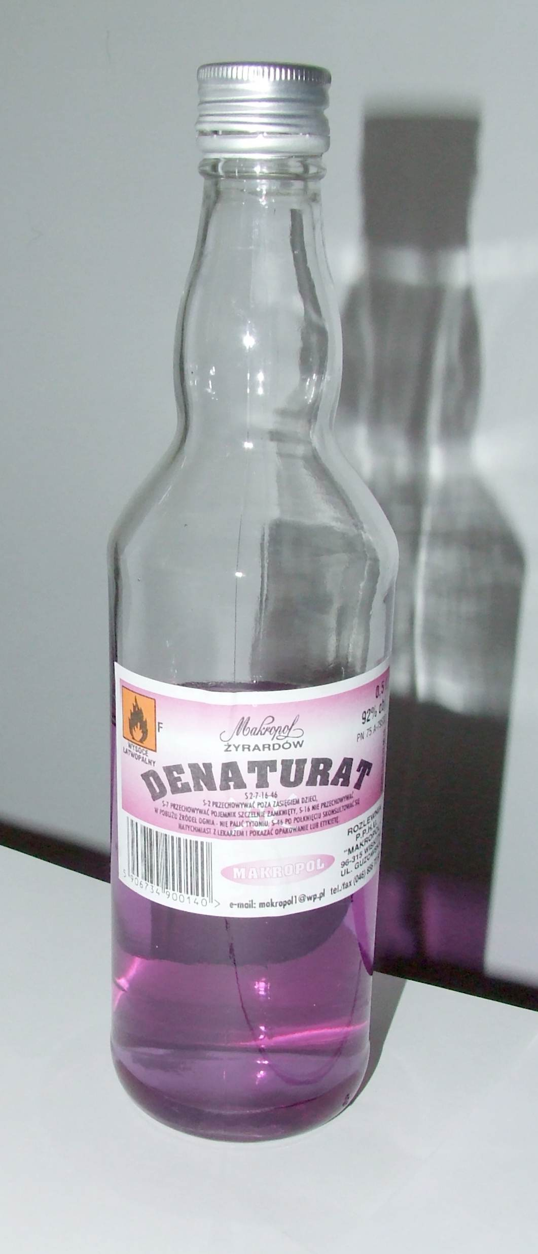 Bottle of denatured alcohol.